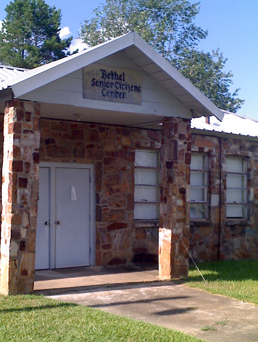 Bethel Senior Citizen's Center